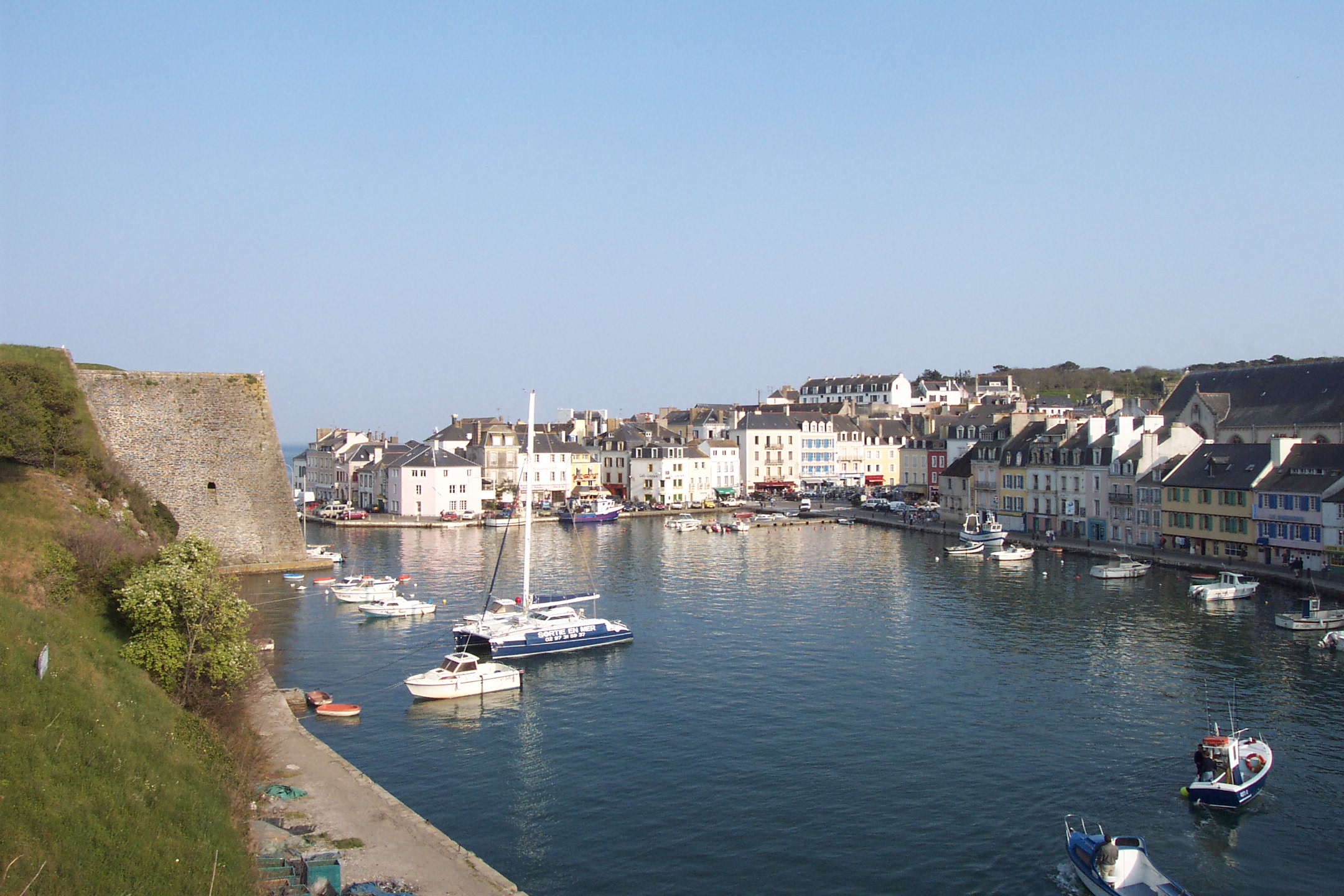 Description =Belle-ile Le Palais arriere port Source =Photo taken by Remi Jouan Date =Avril 2003 Author =Remi Jouan